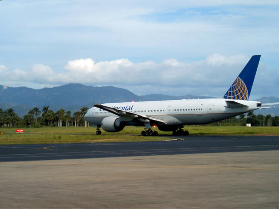 Continental Airlines Boeing 777 at Cibao International Airport by lacreta